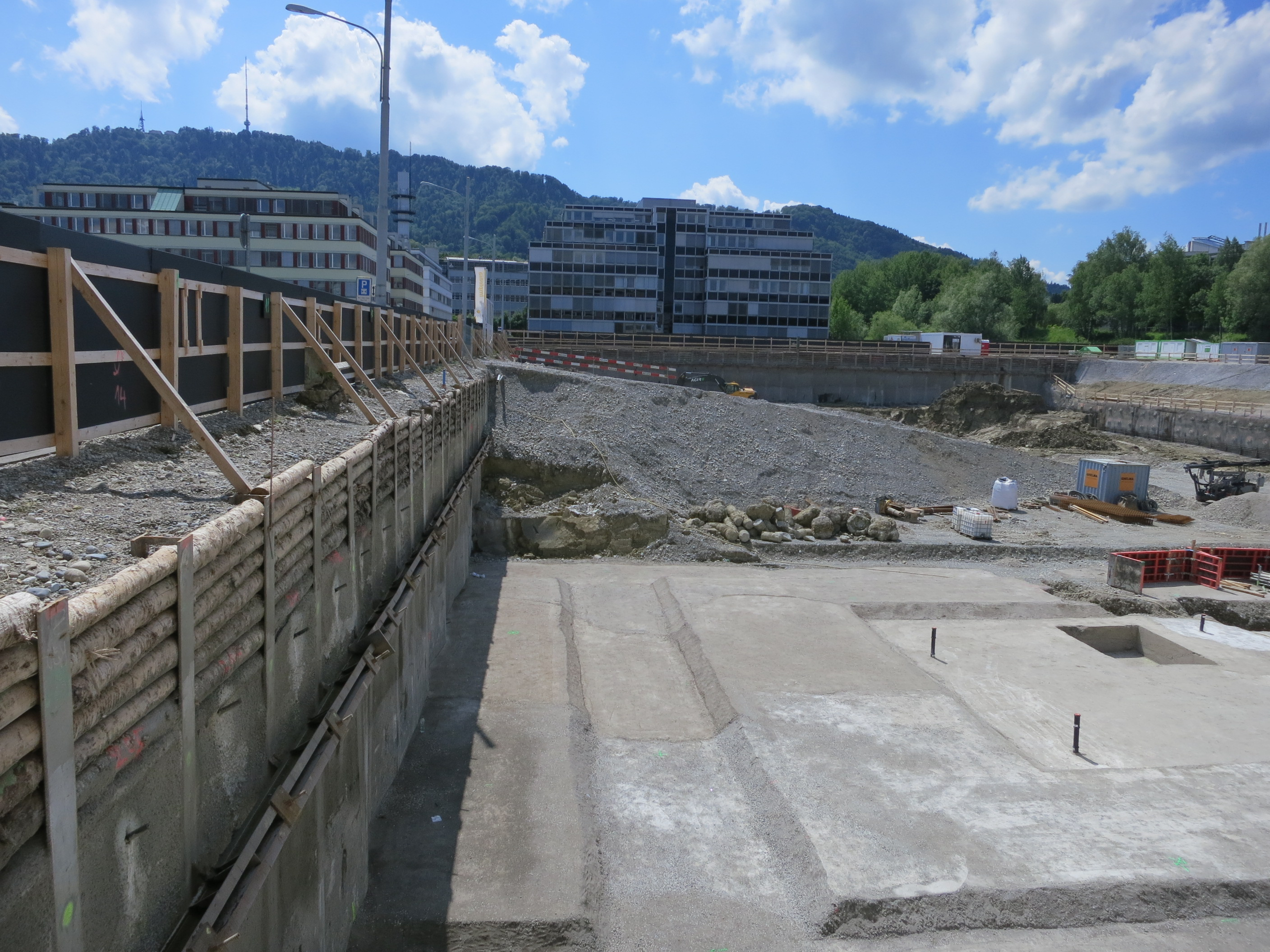 Subfossiler Wald: Baugrube mit Uetliber, Zürich-Wiedikon, Schweiz